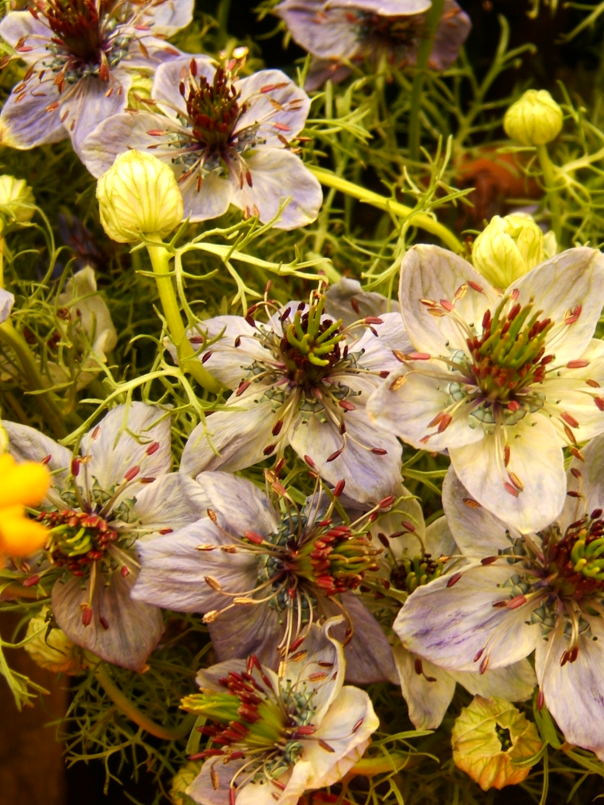 Black Cumin (Nigella sativa). May 10, 2006